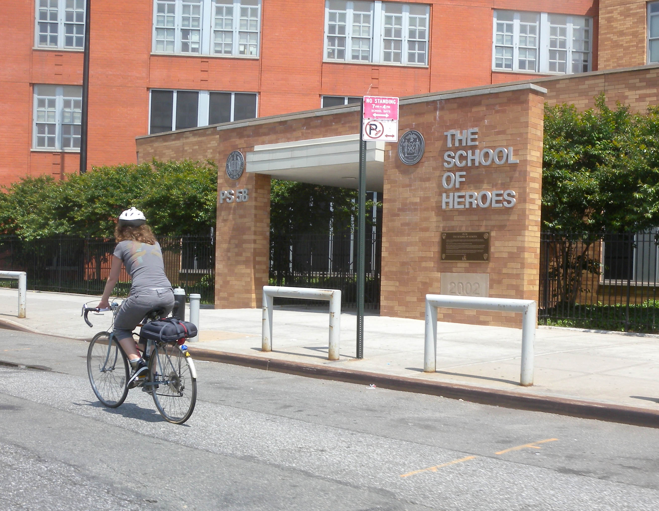 Looking east at PS 58, "School of Heroes," west of 73d Street on Grand Avenue, Maspeth.